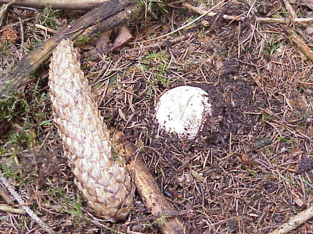 Species: Phallus impudicus Family: ' Image No. 1